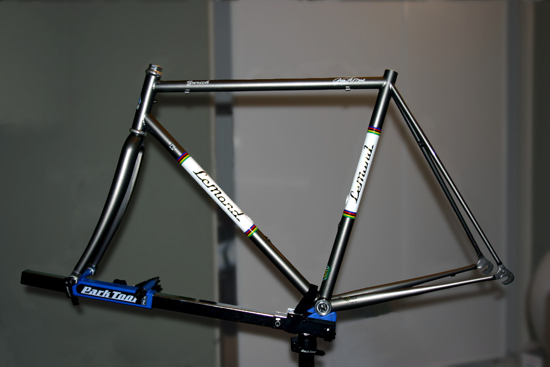 Lemond Zurich 2000 repainted by pro paint shop. Right to use photo on wikipedia granted by photographer and frame owner to thewalrus, march/2006. 2000 Lemond Zurich specifications: [1] * Main frame: Reynolds 853 double butted steel alloy * Stays: Reynolds 725 steel alloy * Fork: Icon Air Rail